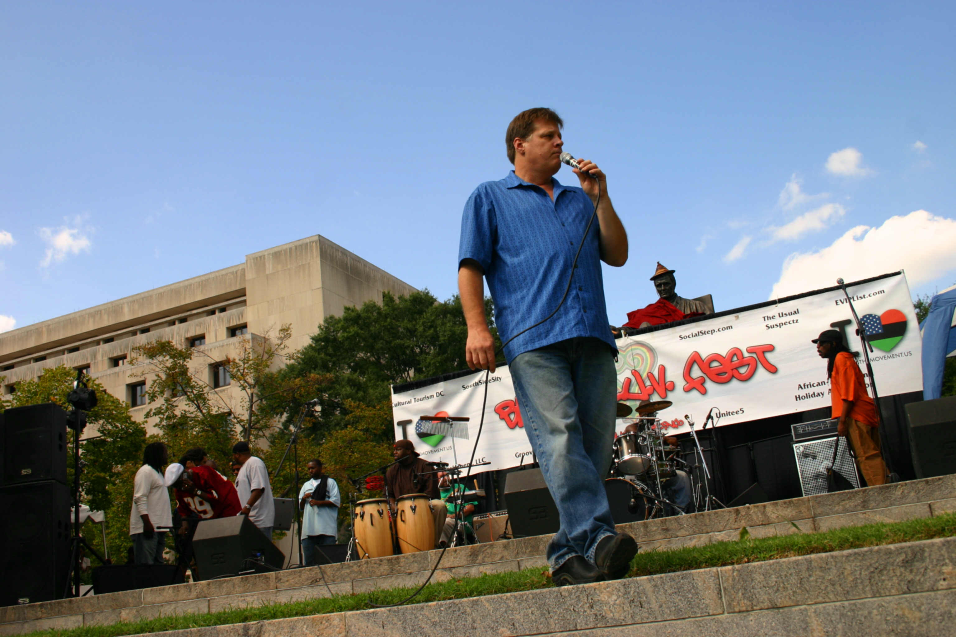 Kevin Zeese, Green - Libertarian - Populist US Senate Candidate for MD . . 8th Annual Black Luv Festival . . 4th Street and Pennsylvania Avenue, NW . Washington DC . Sunday afternoon, 17 September 2006 . . Elvert Xavier Barnes Photography View Kevin Zeese at Black LUV Fest video at